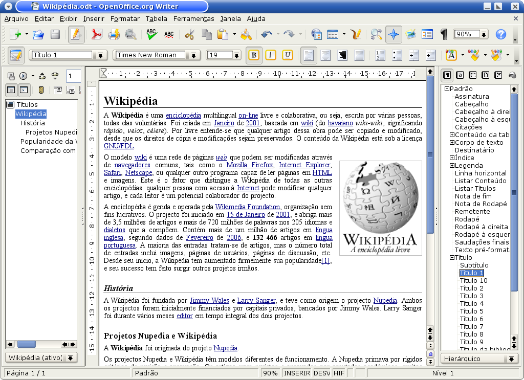 Screenshot of 2.0 Writer Language: Portuguese OS: SuSE Linux 10.0 using KDE 3.4